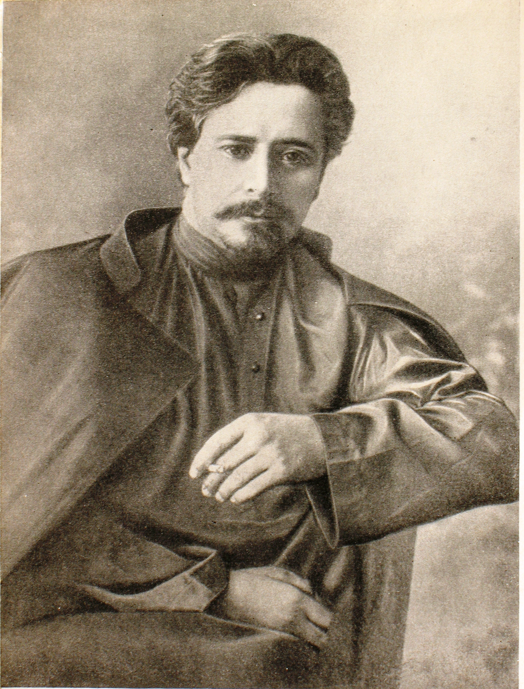 Russian writer Leonid Andreev.